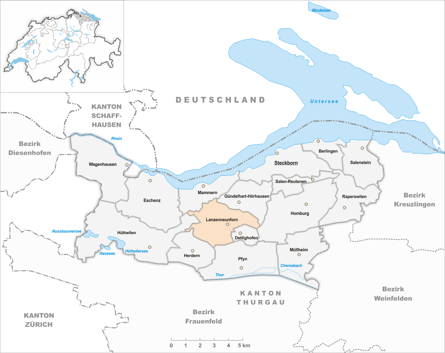 Municipality Lanzenneunforn